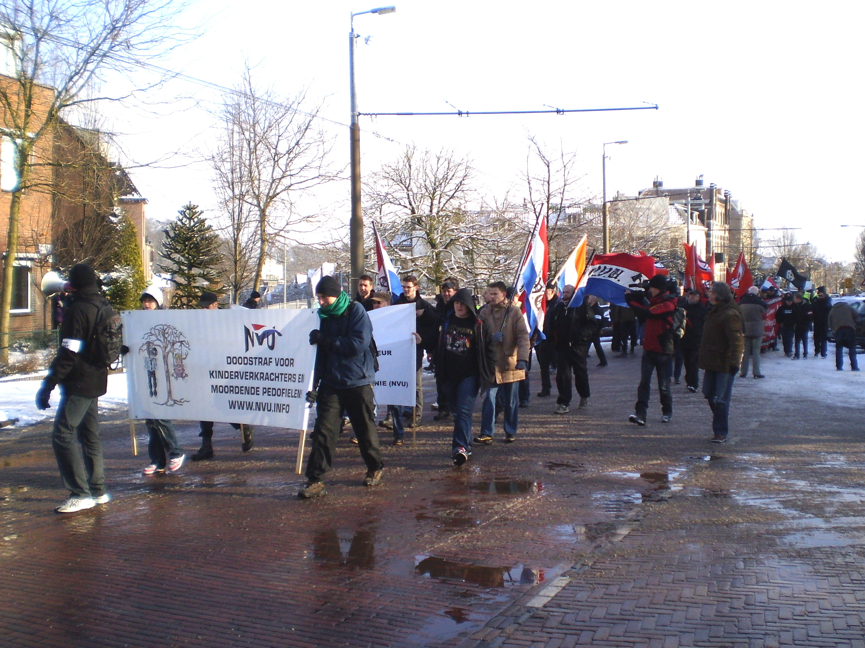 Political party Dutch People's Union demonstrating in Arnhem, propagating "Death penalty for child rapists and murderous pedophiles"